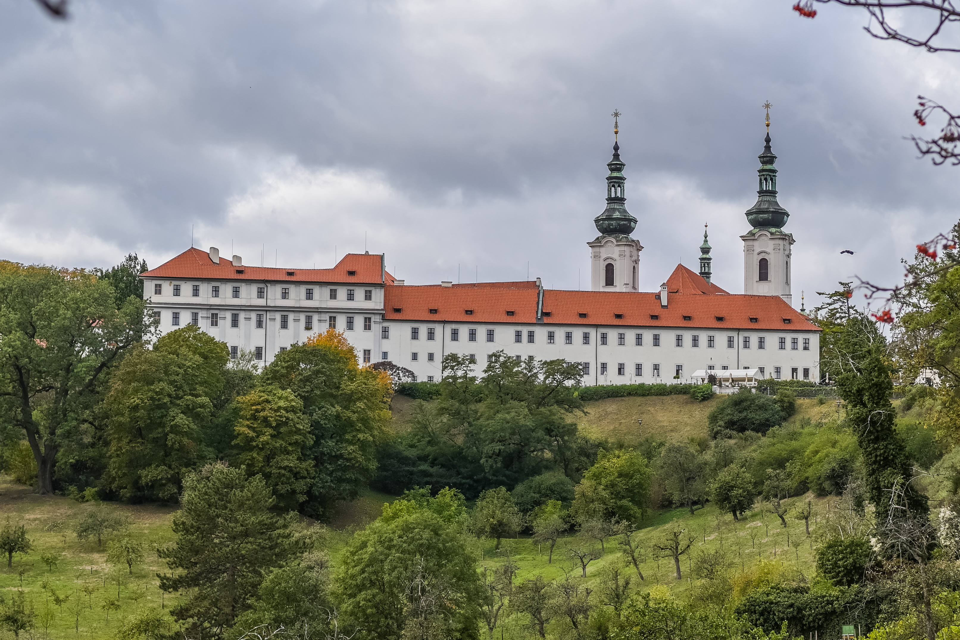 Prague, Czech Republic, October 2018